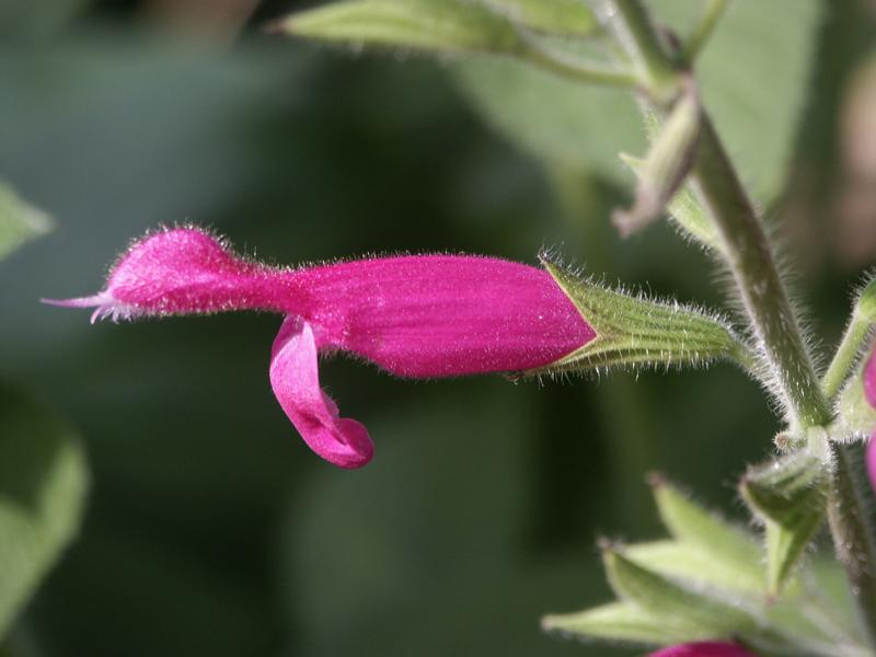 Royal Botanic Gardens, Kew, UK